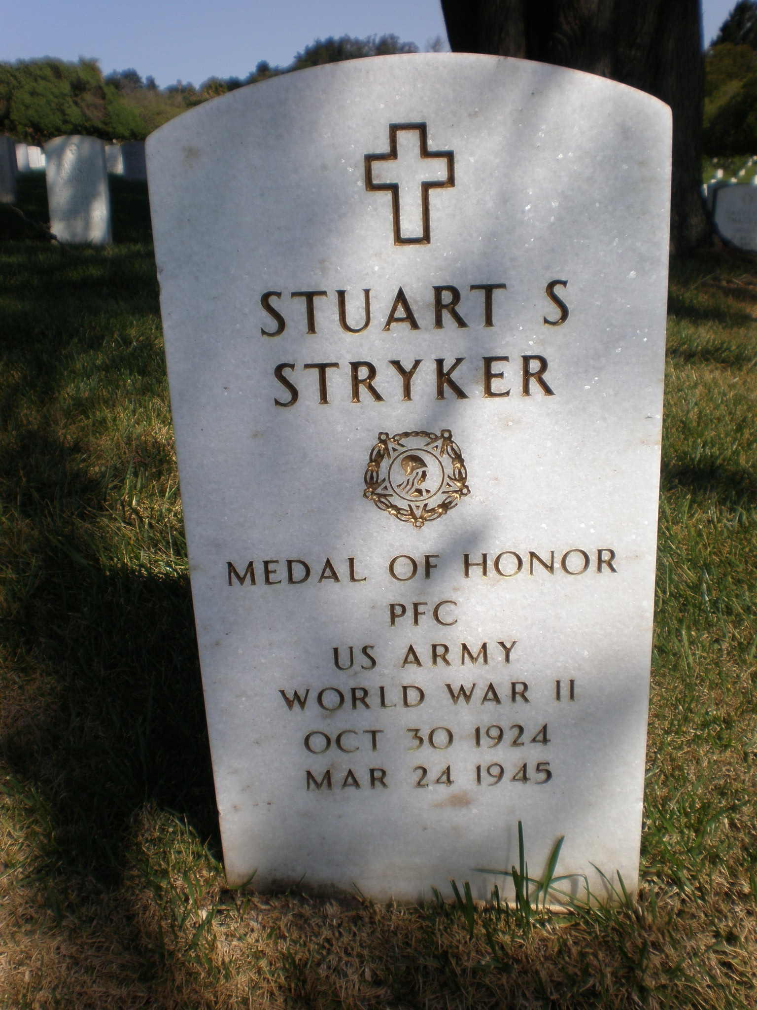 The front of the headstone of PFC Stuart S. Stryker, Medal of Honor recipient, in section B of Golden Gate National Cemetery in San Bruno, California.